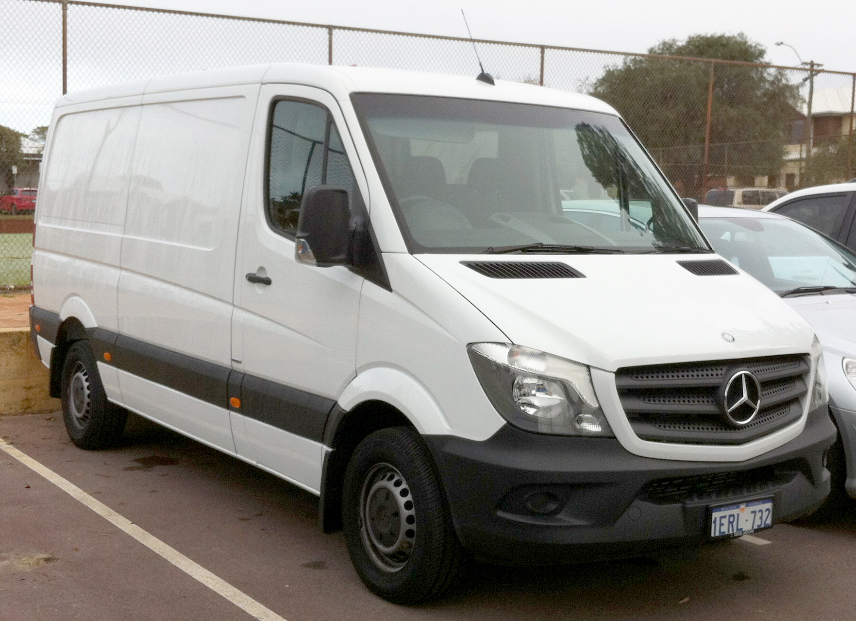 2015 Mercedes-Benz Sprinter (W 906) 313 CDI MWB van. Photographed at Scotch College, Swanbourne, Western Australia Australia